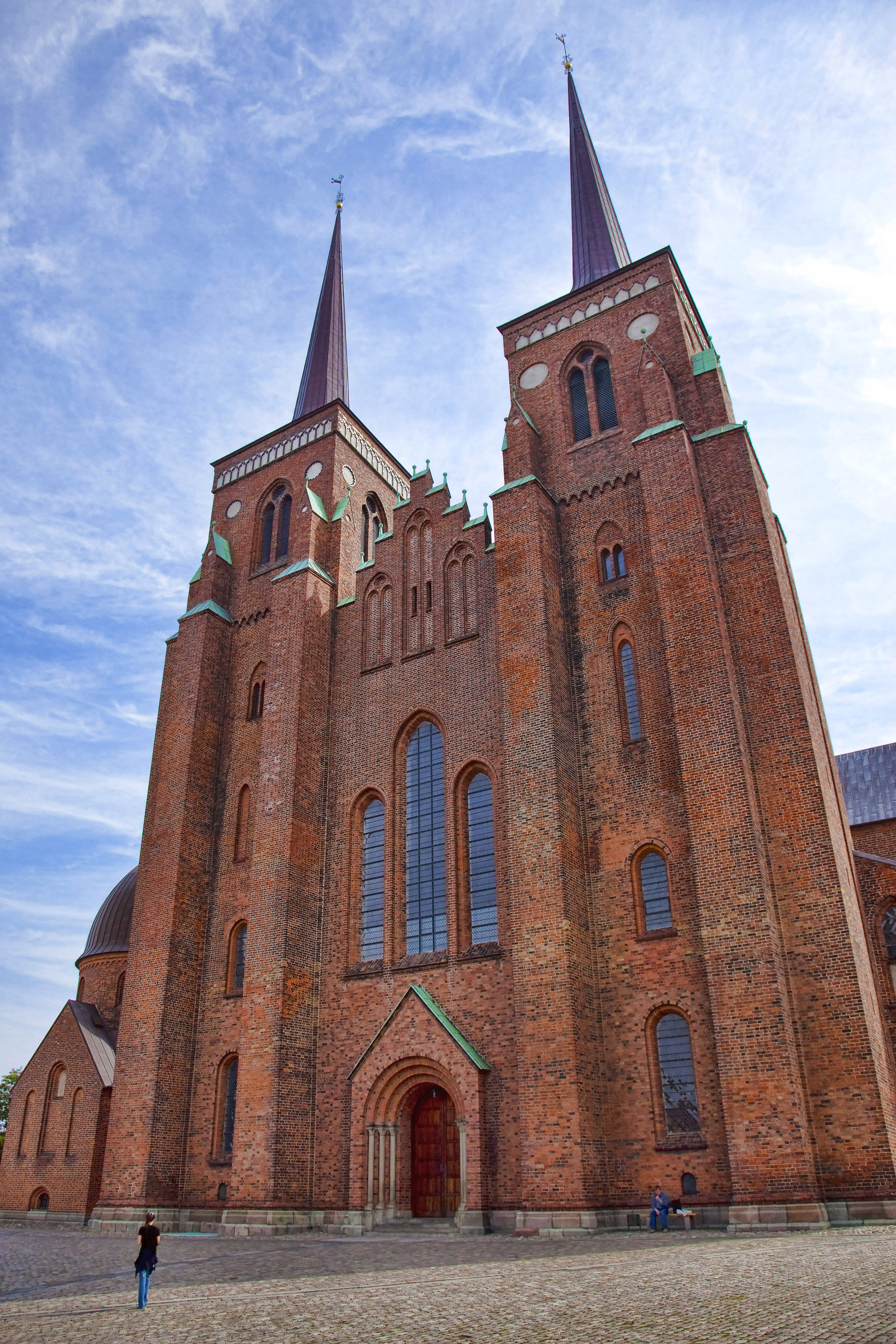 Roskilde Cathedral in August